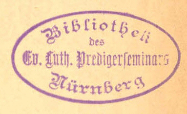 Seal of the Library of the Nürnberg Predigerseminar about 1930